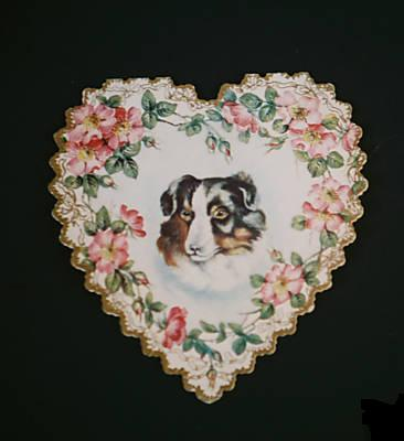 Scan of a Valentine greeting card circa 1900.